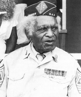 Sergeant Major Jacob Charles Vouza, who had been a Coastwatcher on Guadalcanal in 1942